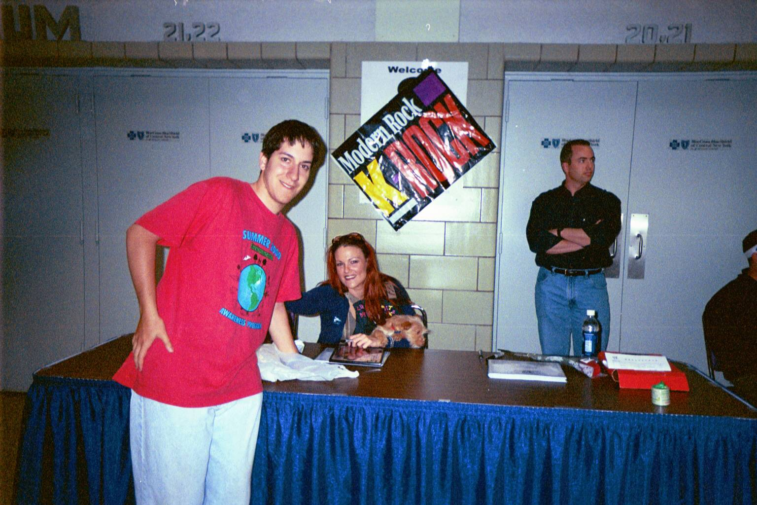 Photo of when I met WWE Diva Lita (Amy Dumas) on May 31, 2003 at the War Memorial ONcenter in Syracuse, New York.